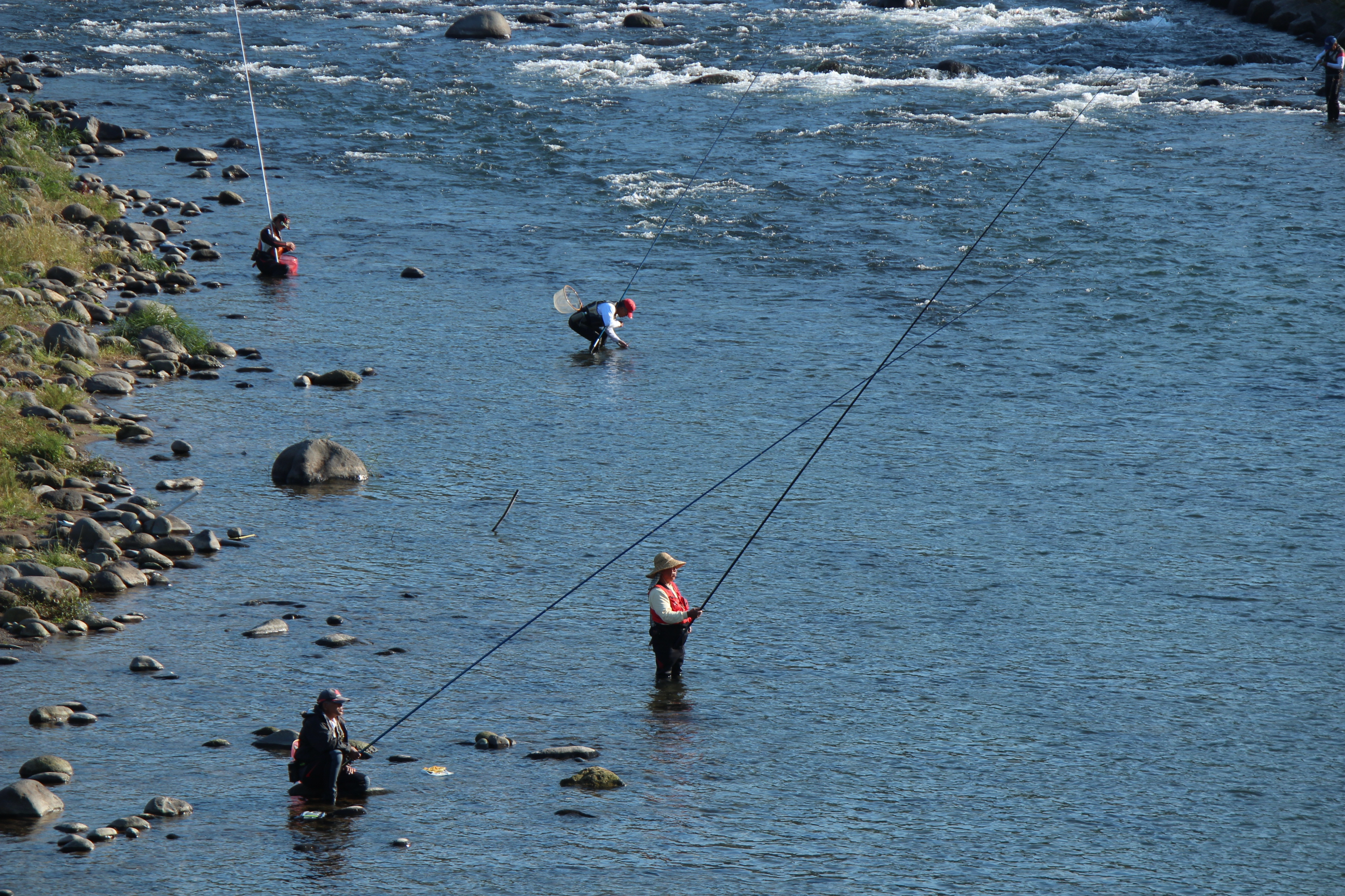 Ayu fishing in Kano River, Izu Peninsula, Shizuoka Prefecture, Japan.